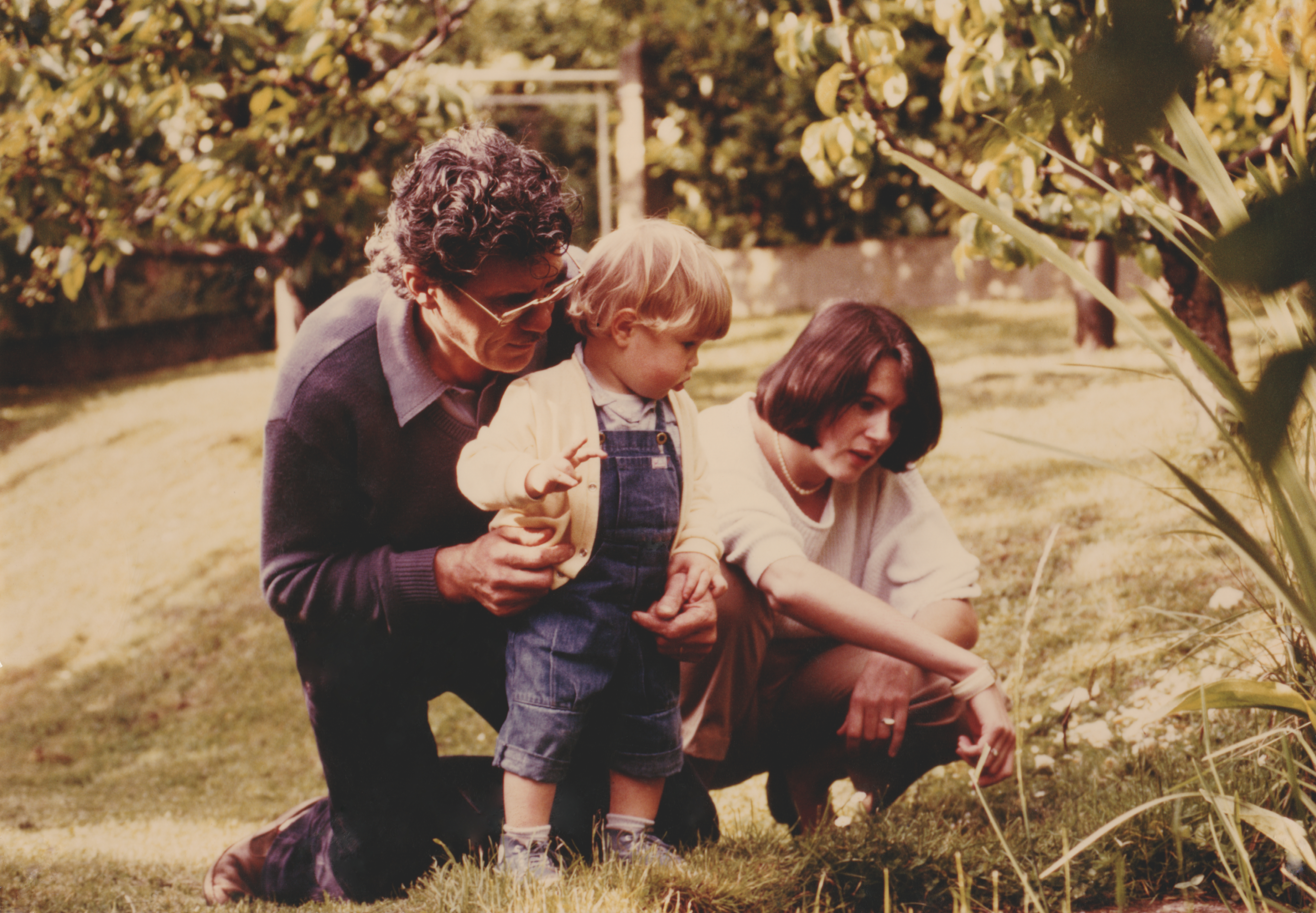 Young boy, mother and grandfather in a garden - 1984-05